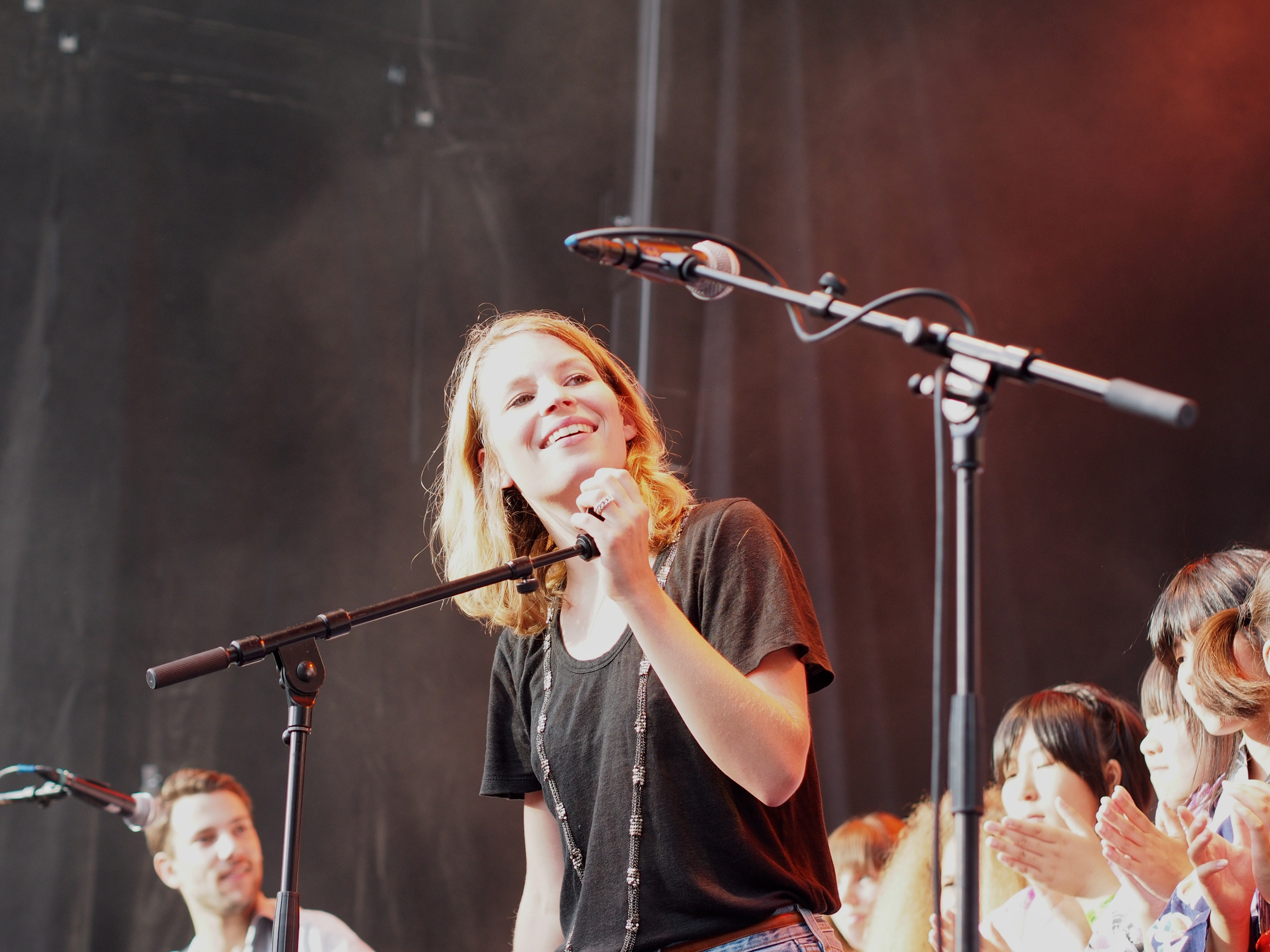 Anna Rossinelli performing at the Openair auf dem Bundesplatz 2012, Bern, Switzerland.